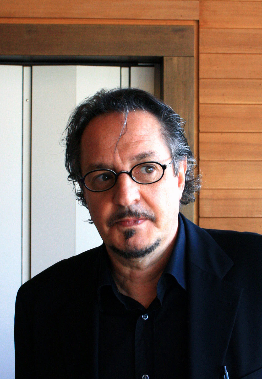 Writer Heinz D. Heisl at Schüpfheim Gymnasium, Entlebuch Biosphere.